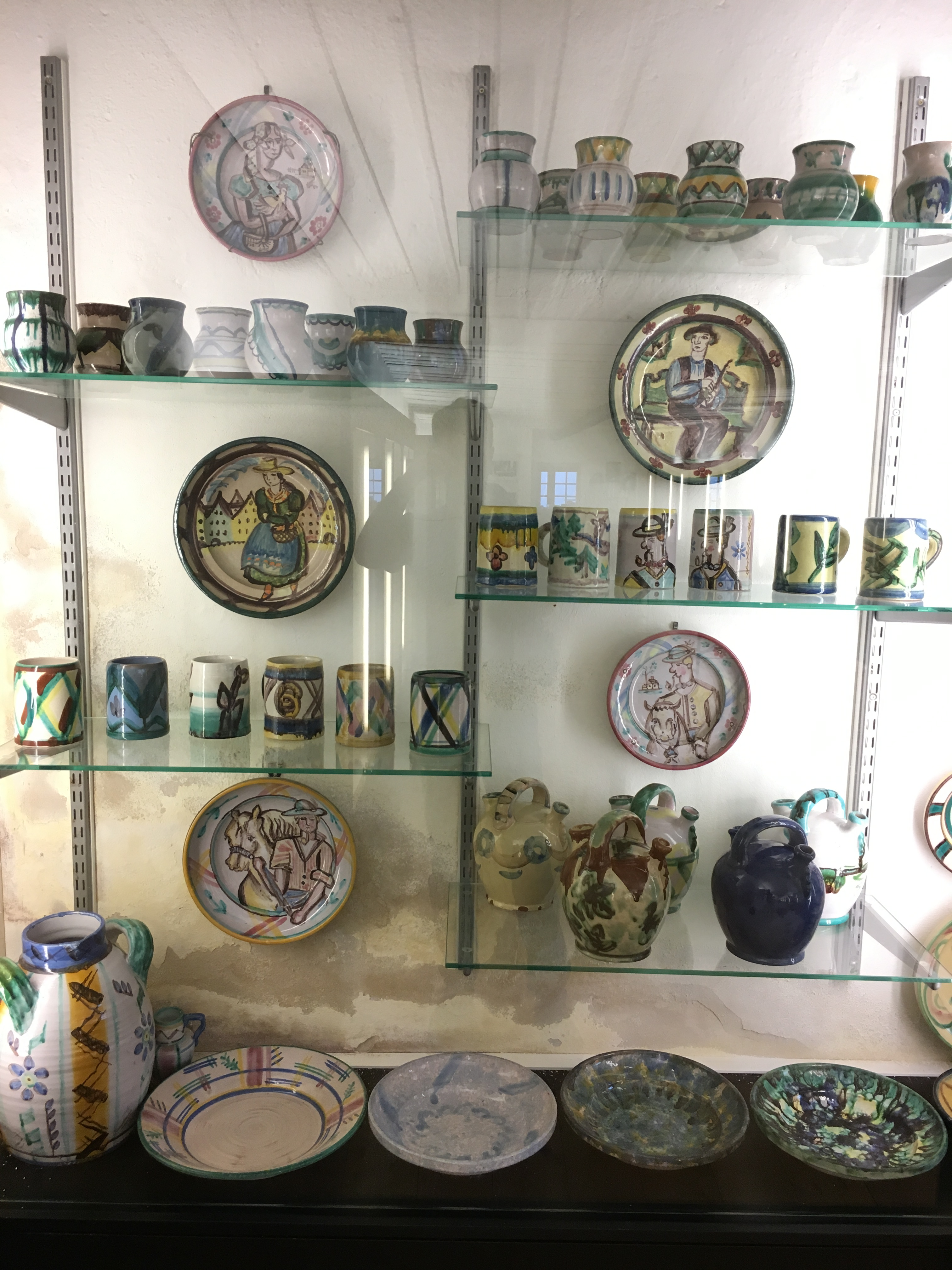 Tonindustrie Scheibbs Teller und Krüge